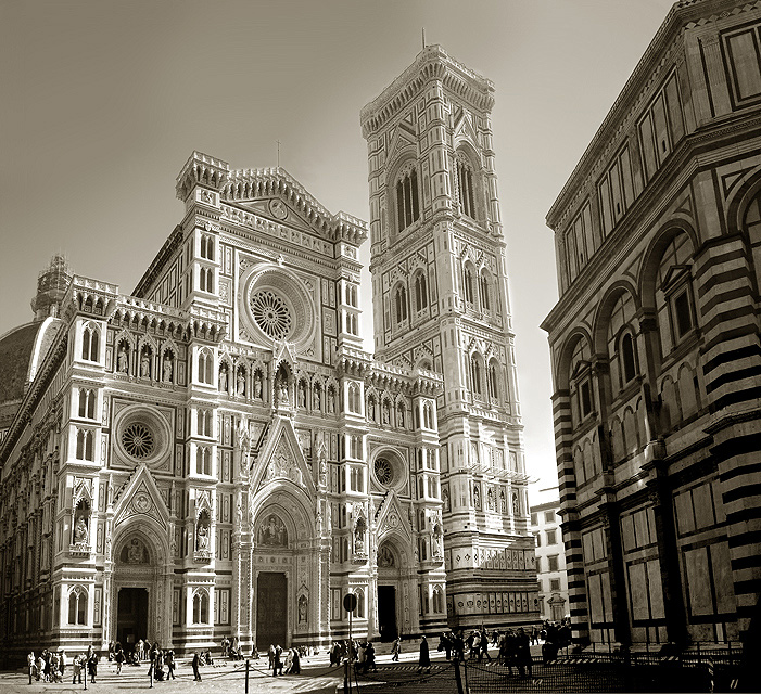 Santa Maria del Fiore and Giotto's campanile, Florence.